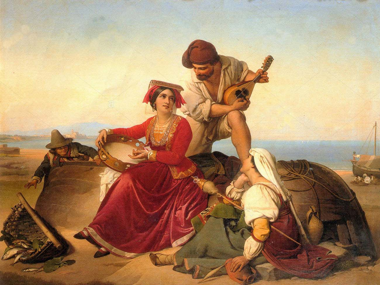 Painting by J. B. Maes (1794-1856)